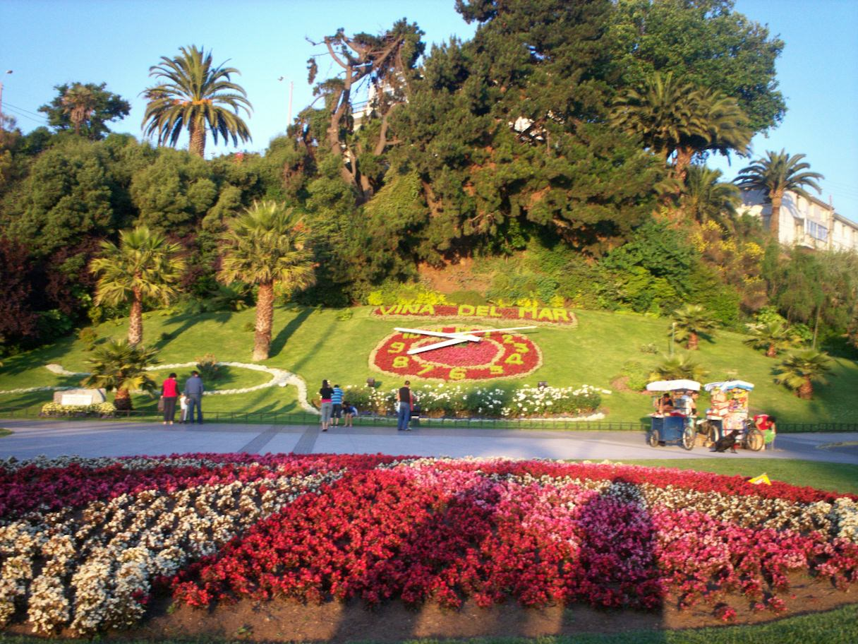 Garden Clockflower in Viña del Mar (Chile)